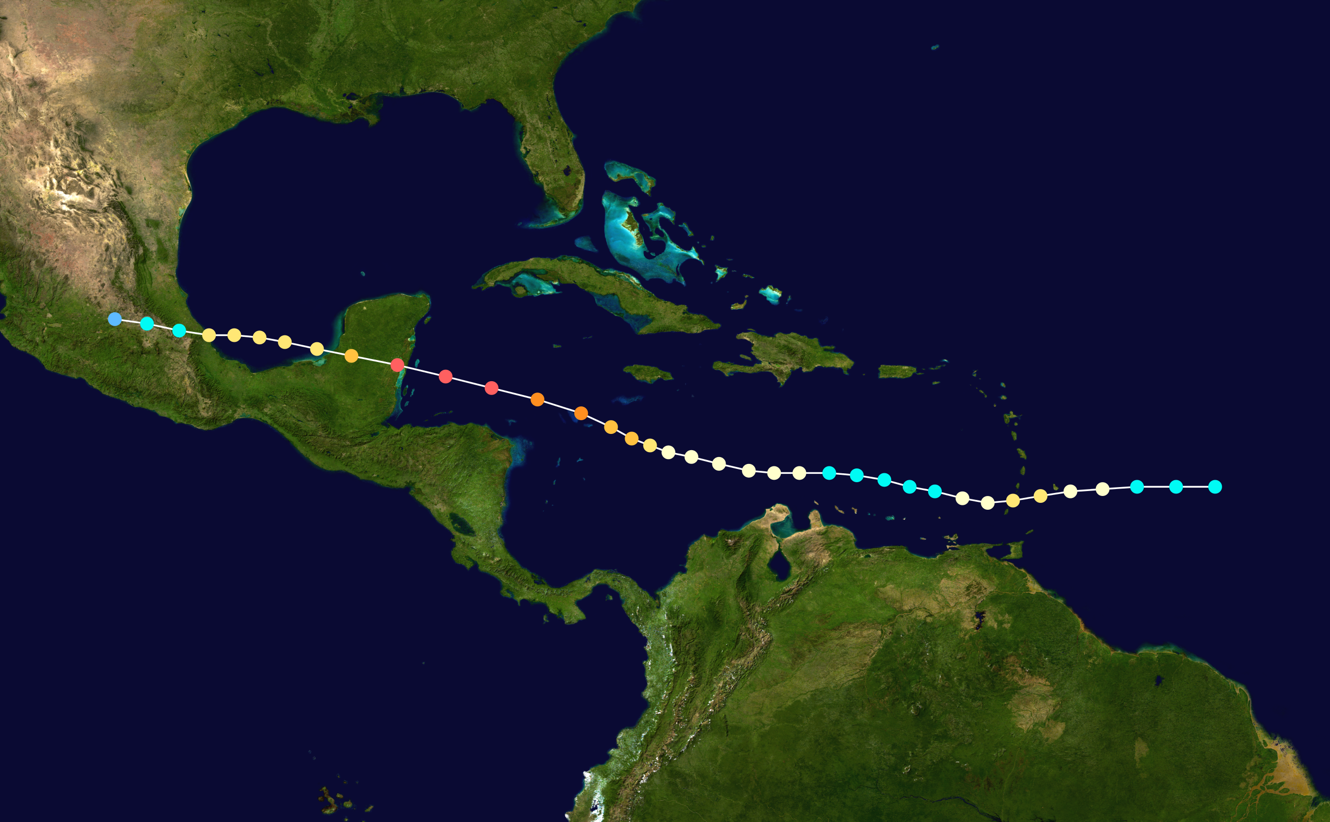 Track map of Hurricane Janet of the 1955 Atlantic hurricane season. The points show the location of the storm at 6-hour intervals. The colour represents the storm's maximum sustained wind speeds as classified in the Saffir–Simpson scale (see below), and the shape of the data points represent the nature of the storm, according to the legend below. Saffir–Simpson scale Tropical depression≤38 mph≤62 km/h Category 3111–129 mph178–208 km/h Tropical storm39–73 mph63–118 km/h Category 4130–156 mph209–251 km/h Category 174–95 mph119–153 km/h Category 5≥157 mph≥252 km/h Category 296–110 mph154–177 km/h Unknown Storm typeTropical cycloneSubtropical cycloneExtratropical cyclone / Remnant low / Tropical disturbance